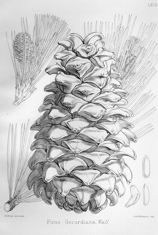 Illustration of Pinus gerardiana from Brandis, Dietrich: "Forest Flora of North-West and Central India" (1874)